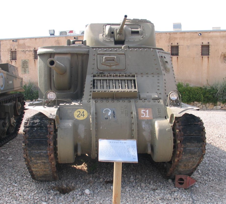 Description: M3 Lee medium tank in Yad la-Shiryon Museum, Israel. 2005. Source: Photo by me, User:Bukvoed.